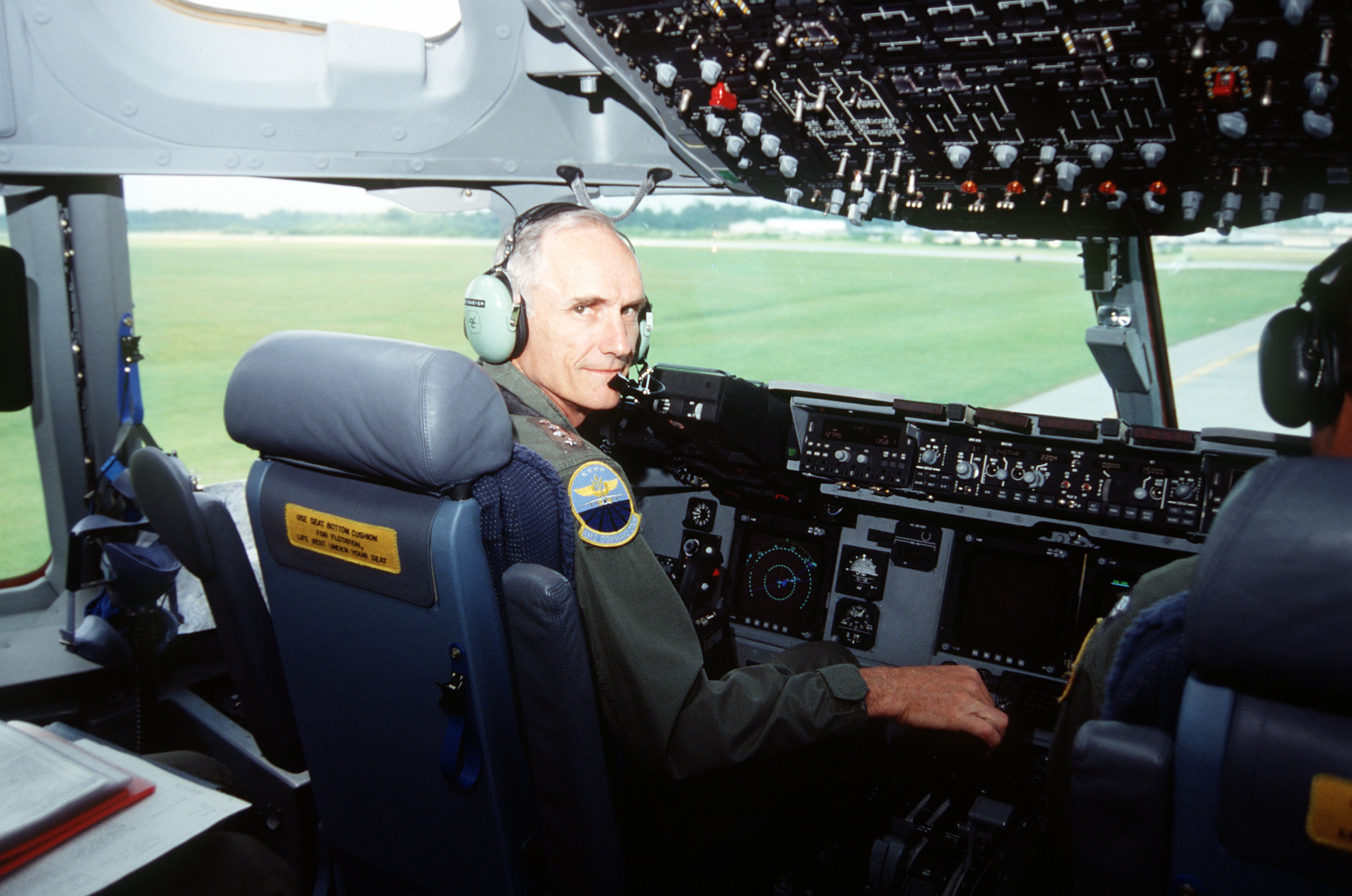 Air Force Chief of Staff General Merrill McPeak Flying "The Spirit of Charleston" Boeing C-17 Globemaster III upon its delivery to Charleston Air Force Base.